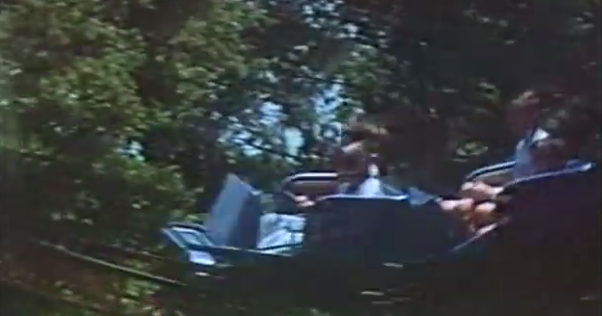 Picture of the front of the train of Mini-Comet, in color. The front of the train is the only way to distinguish the manufacturer of the train.